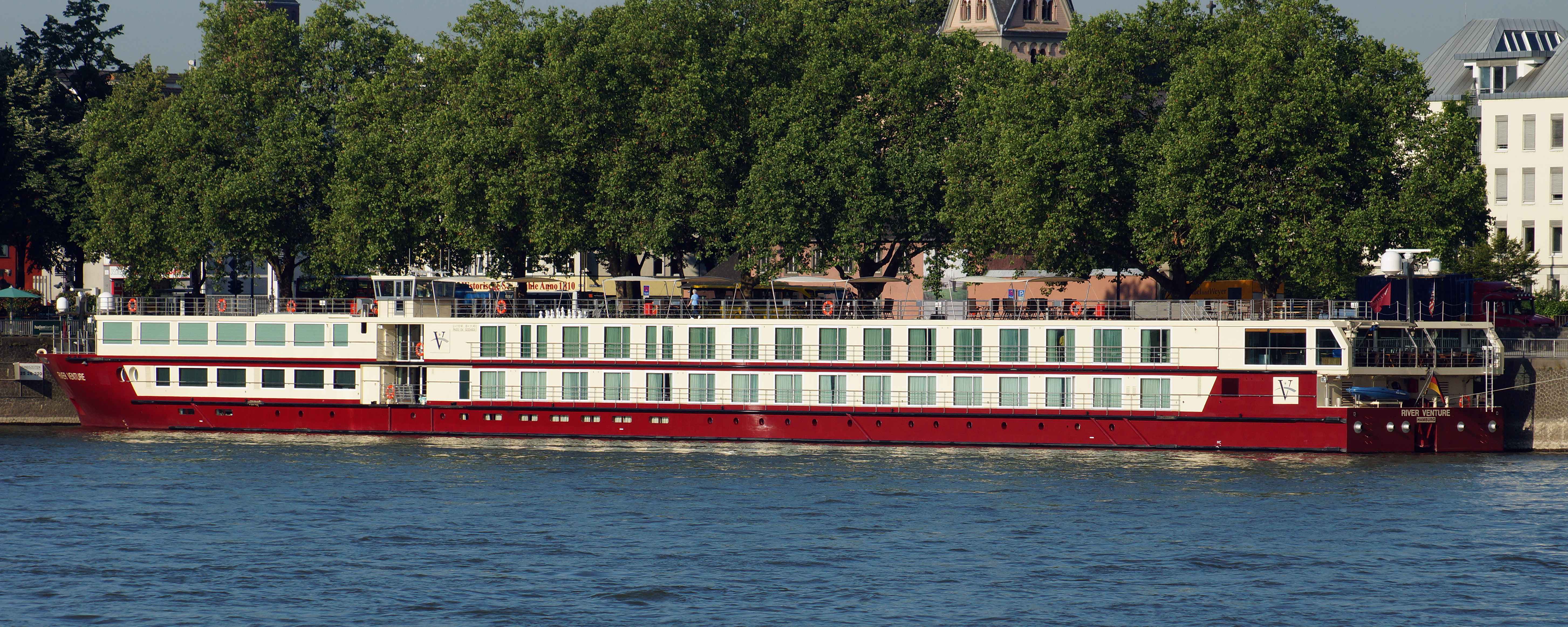 River cruise ship River Venture in Cologne.